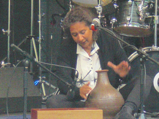 Marilyn Mazur within the concert of her band ‚Celestrial Circle‘ at KlangArt Wuppertal, Germany, July 3rd, 2011